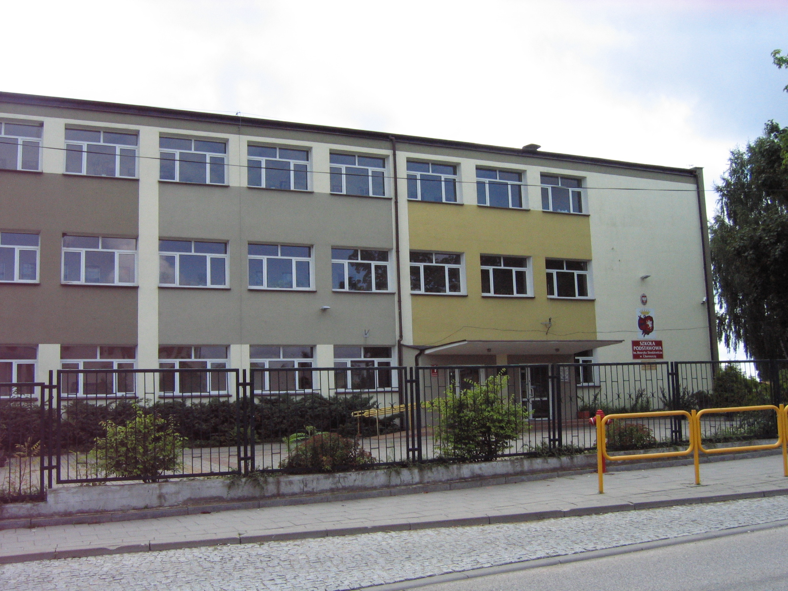 School in Choroszcz